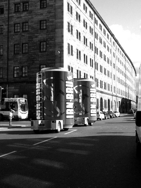 Irn-Bru cans in Bell Street, Glasgow I saw these advertising Irn-Bru cans driving along Bell Street, i like the reaction by the lady waiting to cross the road, and also the large building in the background.